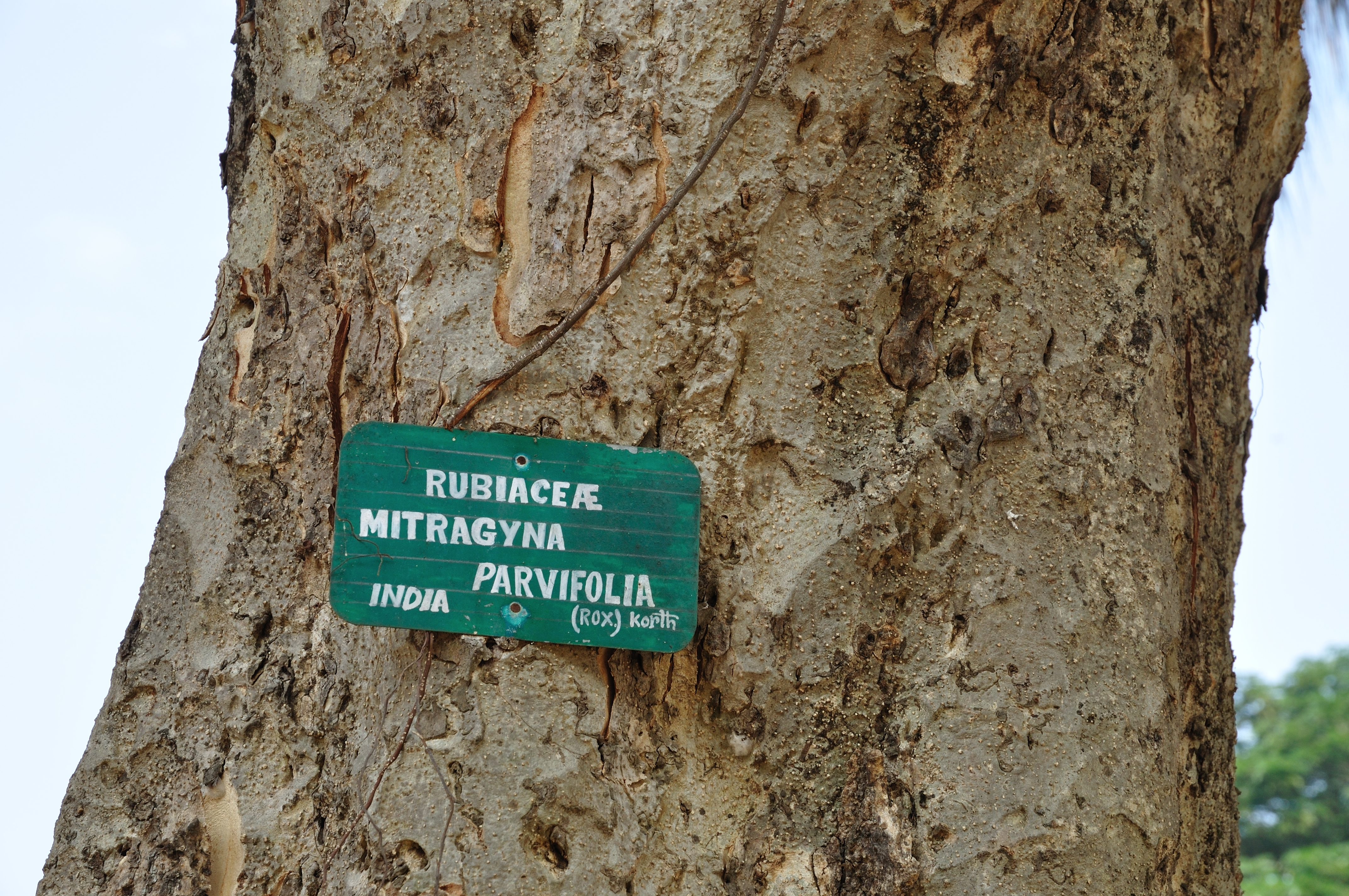 The botanical garden at Howrah, was known as ‘East India Company’s Garden’ or the ‘Company Bagan’ or ‘Calcutta Garden’ and later as the ‘Royal Botanic Garden’ which after independence was renamed as the ‘Indian Botanic Garden’ in 1950. It came under the management of the Botanical Survey of India on January 1, 1963. From June 25, 2009 it is renamed as ‘Acharya Jagadish Chandra Bose Indian Botanic Garden’.